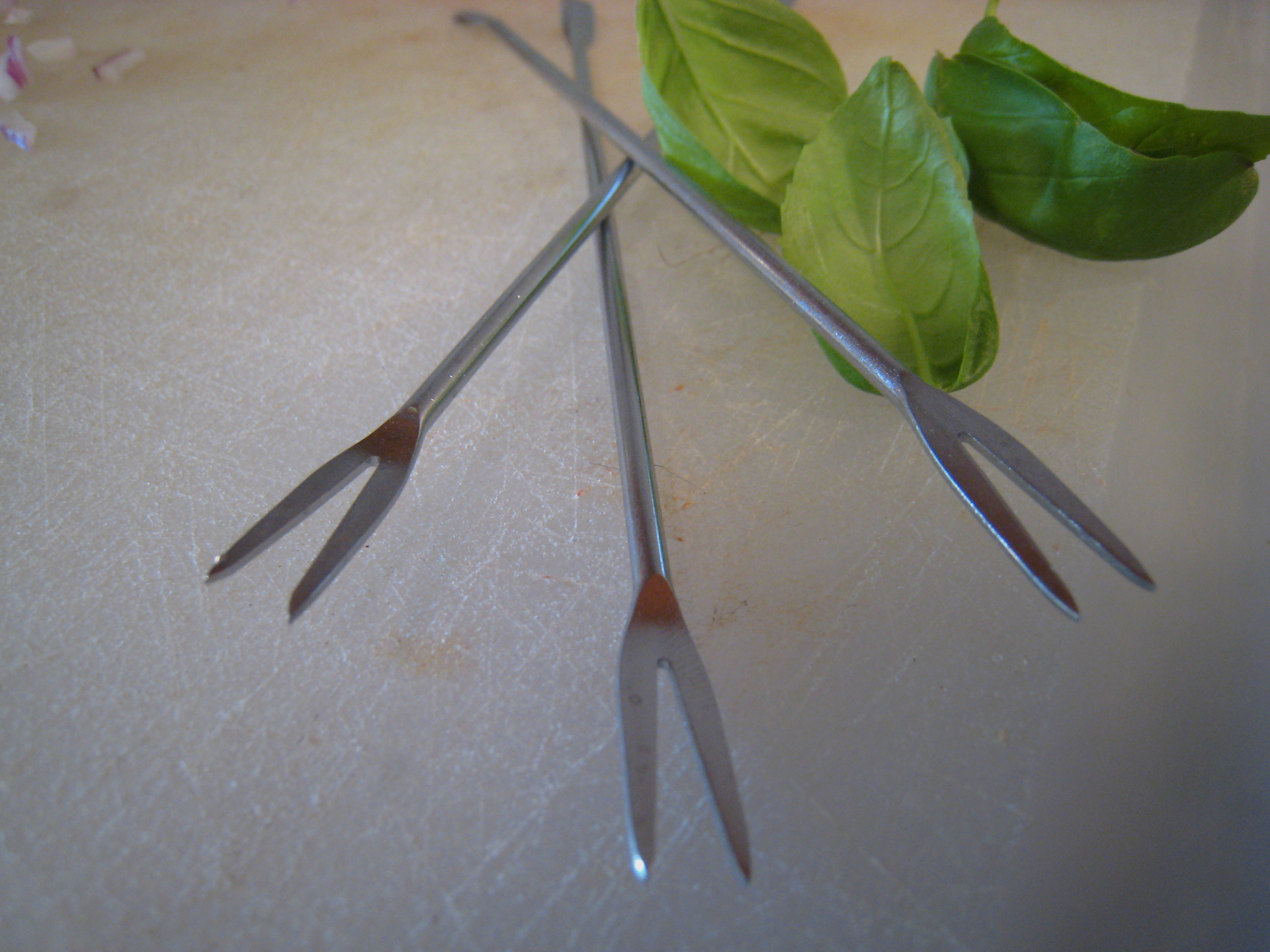 Three lobster forks, also known as lobster picks.